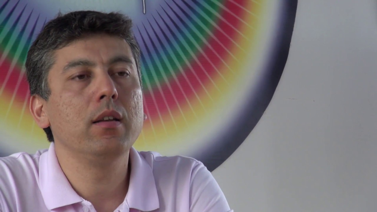 Yeshi Silvano Namkhai